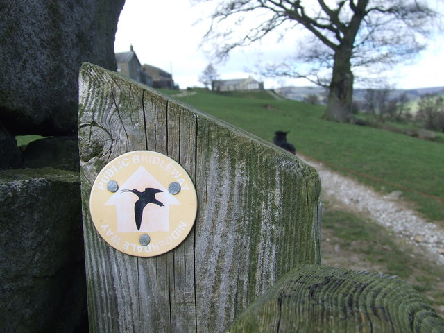 Nidderdale Way Waymark The Curlew is the symbol of the Nidderdale Way waymarks. This one is attached to a gatepost beyond which is a track leading to West House Farm.